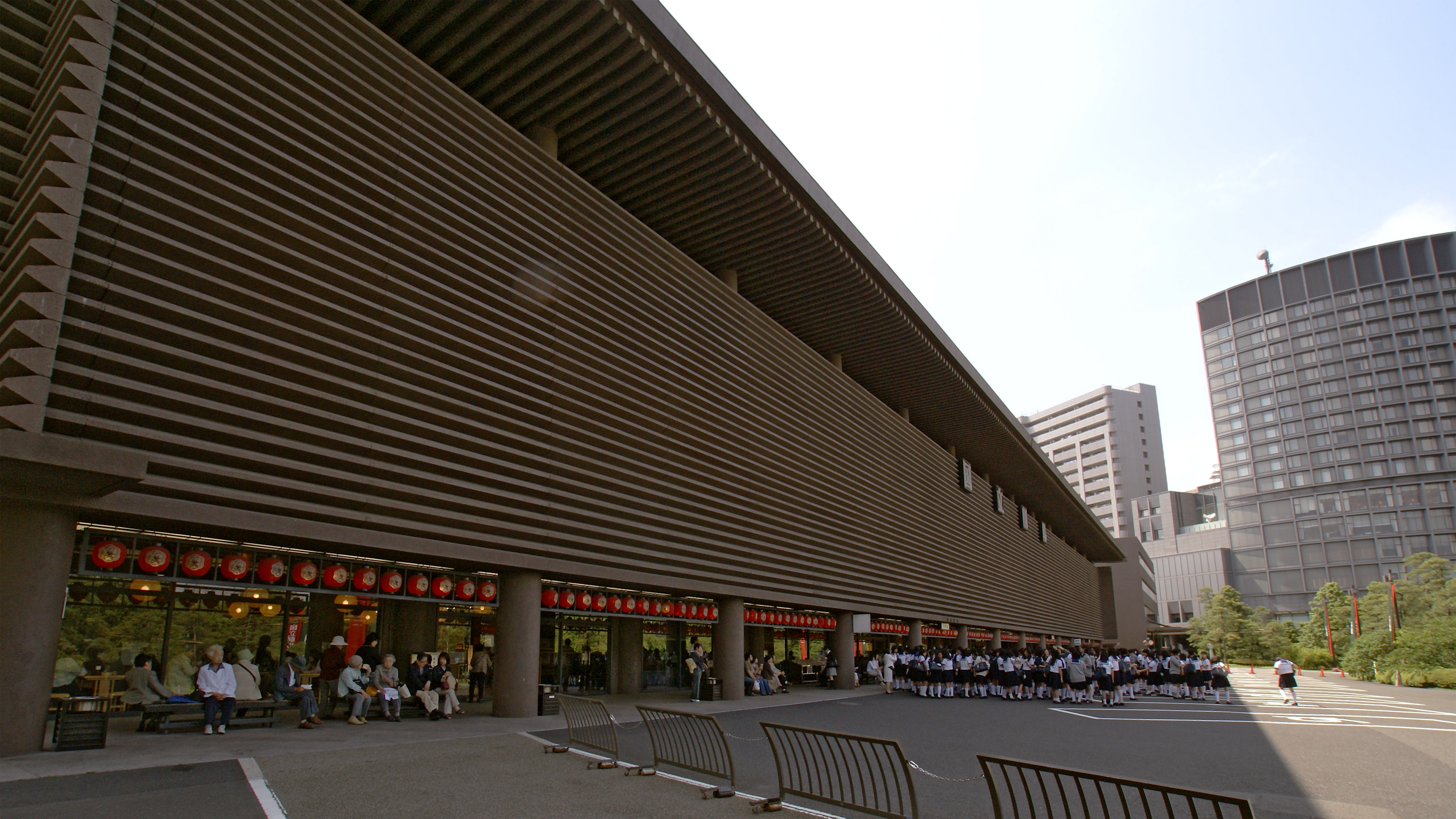 National Theatre of Japan in Chiyoda-ku, Tokyo, Japan